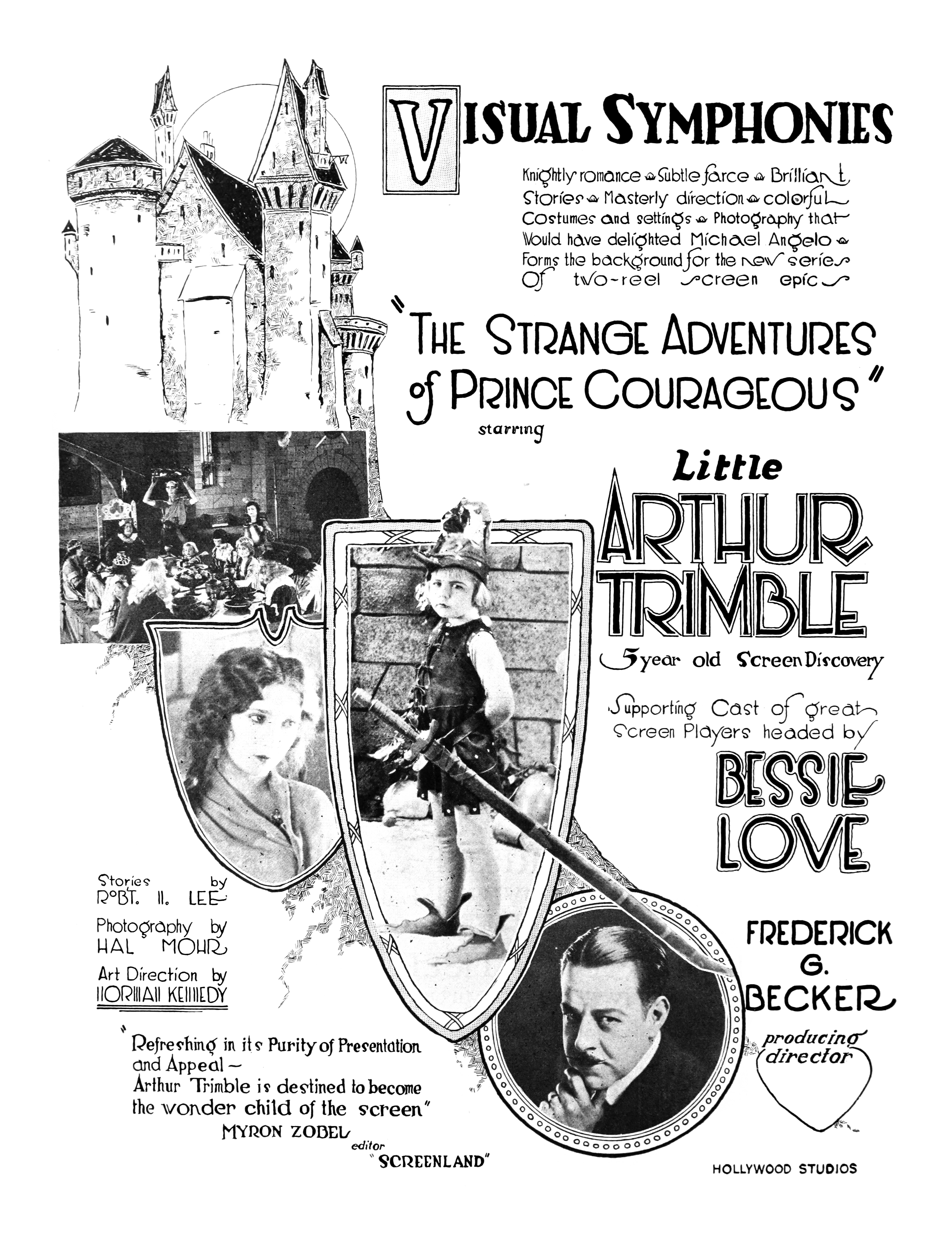 Advertisement for the film serial The Strange Adventures of Prince Courageous (1923), starring Little Arthur Trimble and Bessie Love